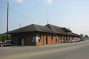 Gainsville, GA station building